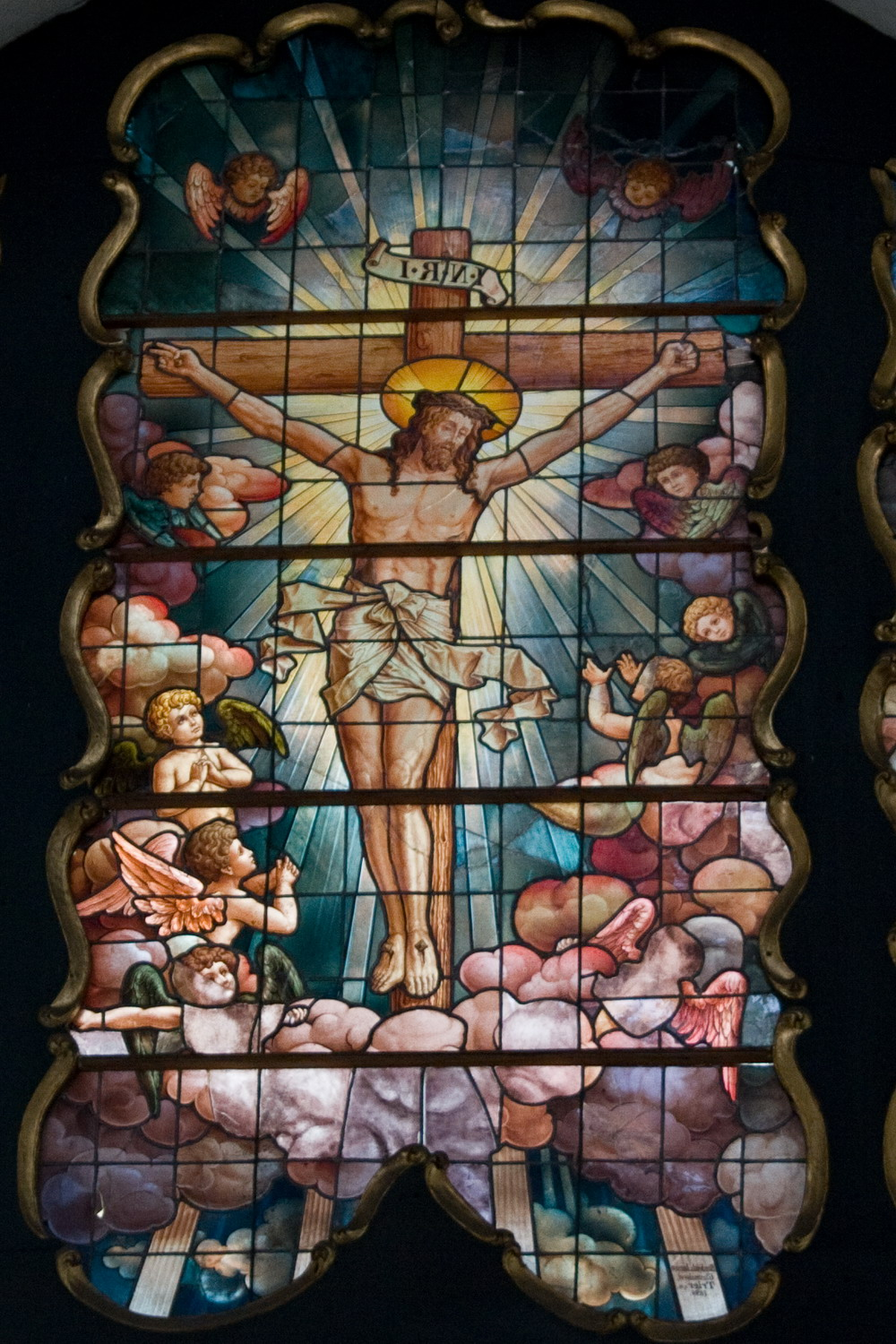 Detail of a window in St Mary's Church in Gdańsk